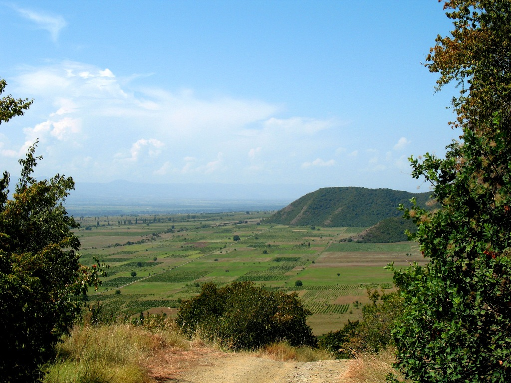 Alazani